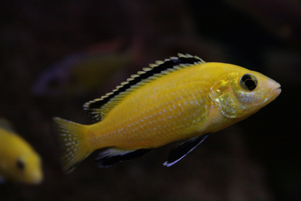 A male Labidochromis caeruleus